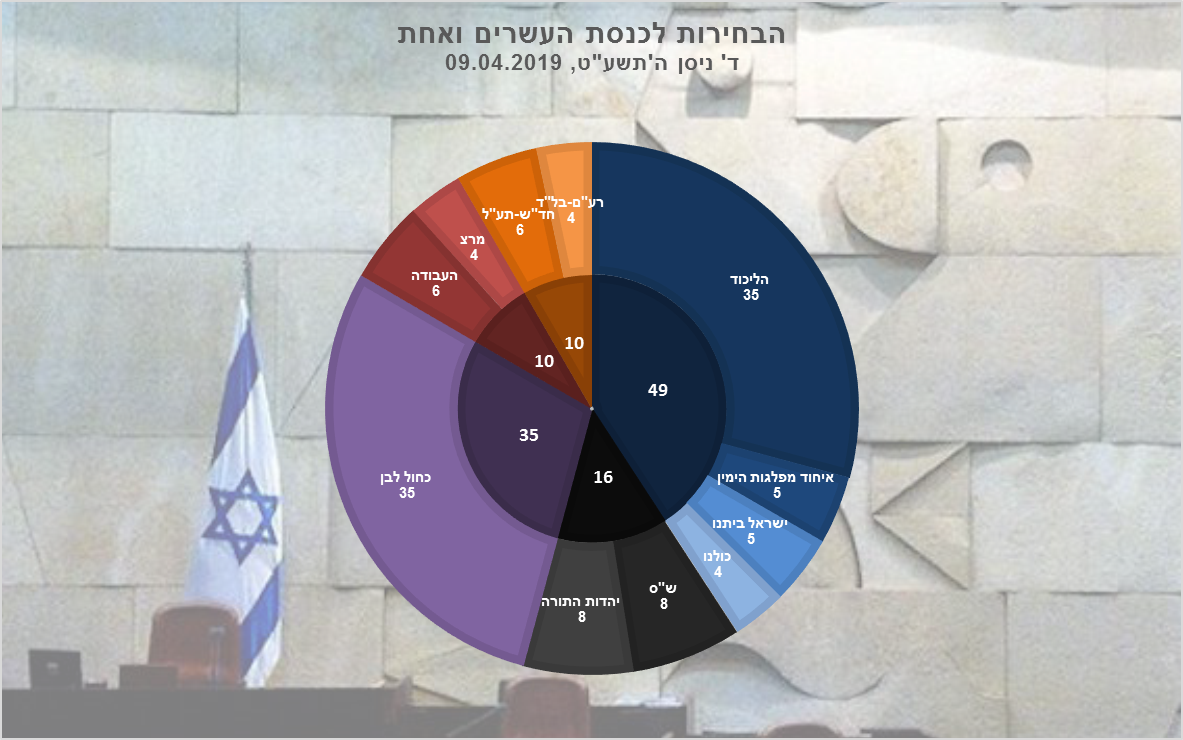 21st Knesset